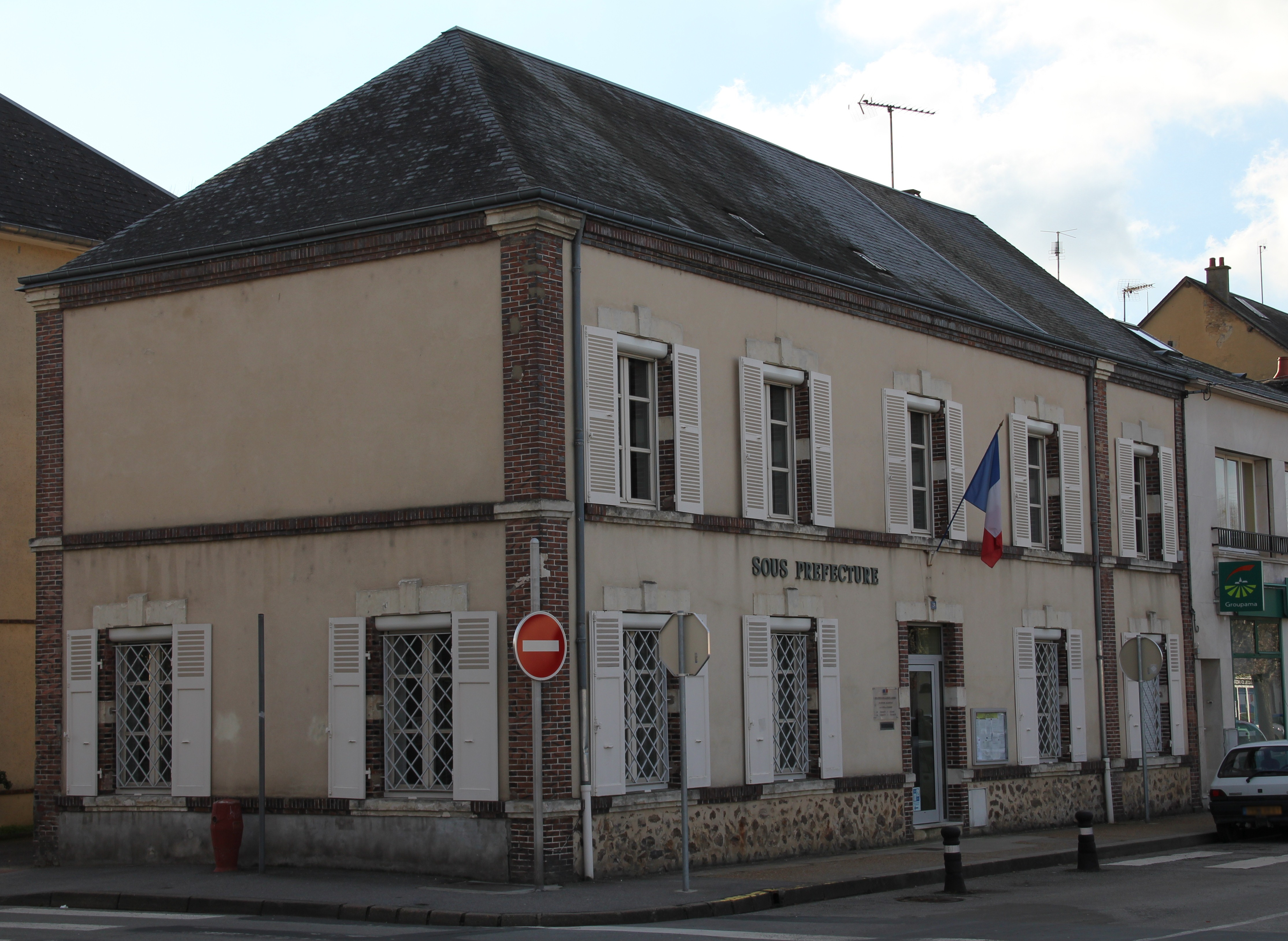 The subprefecture building of Nogent-le-Rotrou, Eure-et-Loir, France.